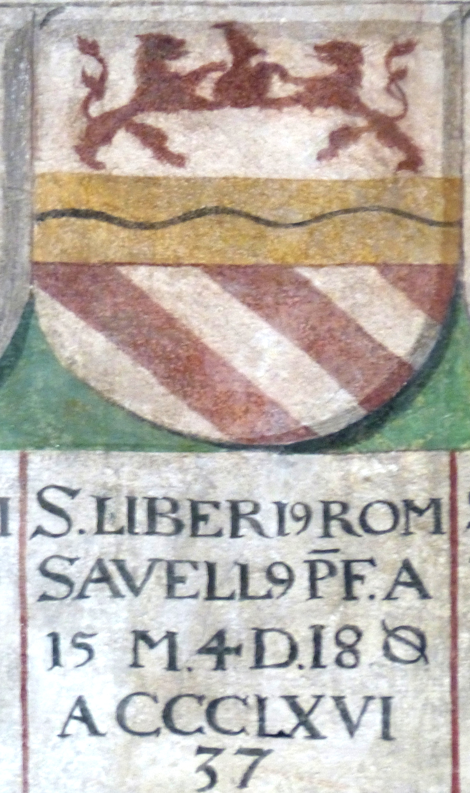 Obernzell ( Lower Bavaria ). Castle: Renaissance Great Hall - Gallery of coats of arms of popes: Coats of arms of the Roman noble family Savelli, because pope Liberius ( + 366 ) was supposed to be a member of this family.This is a photograph of an architectural monument.